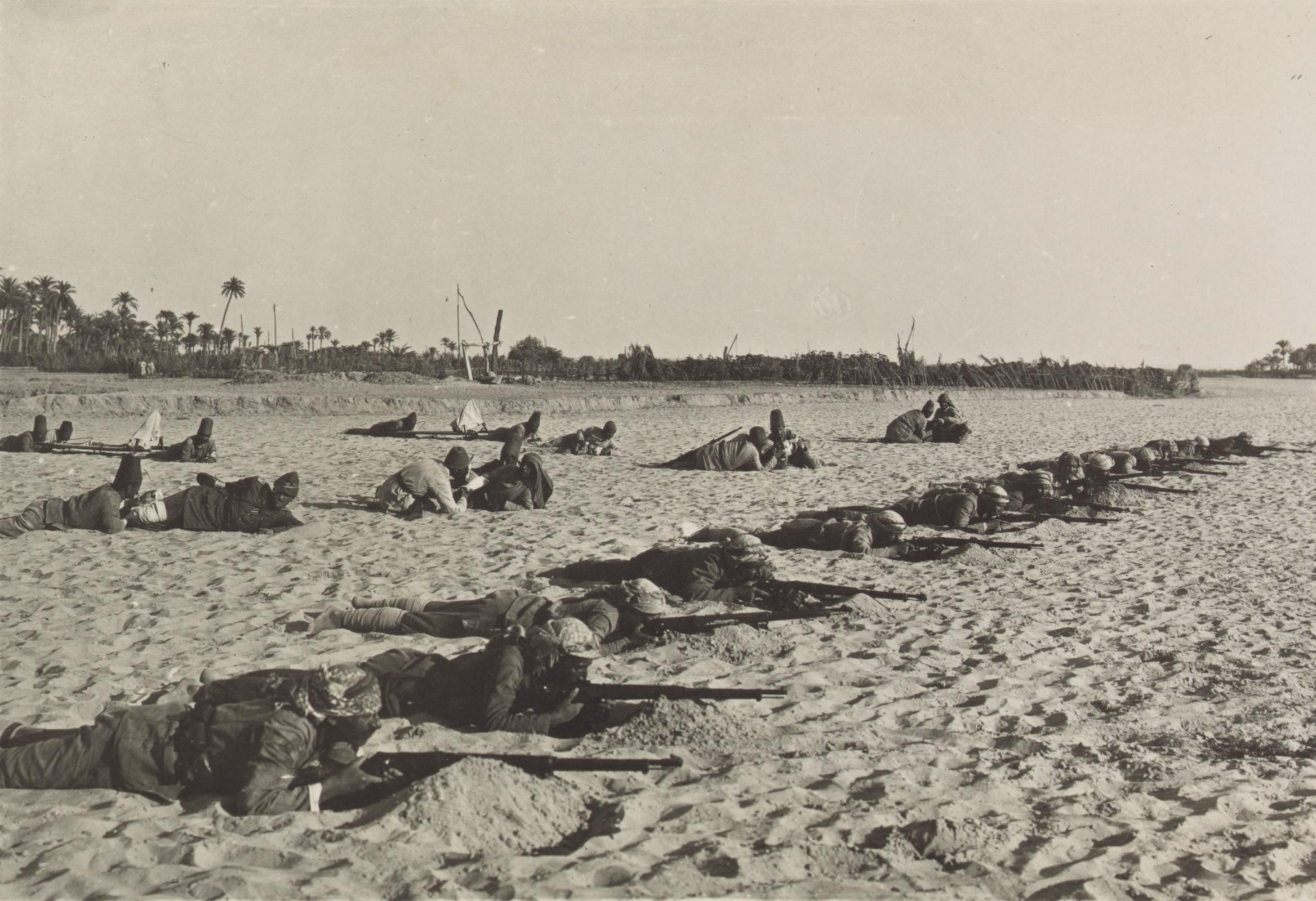 Maneuvers near El Arish, 1916. LC-DIG-ppmsca-13709-00066 (digital file from original on page 18, no.65)